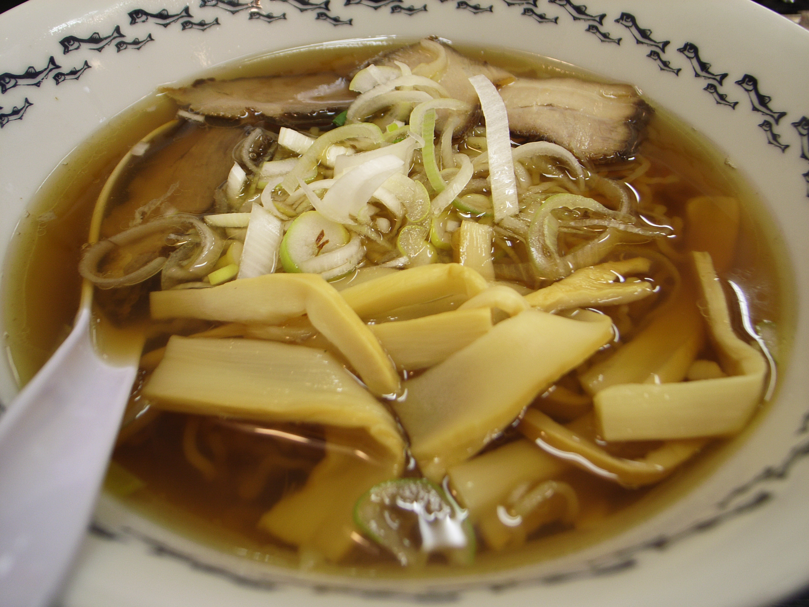 This Lamen was too salty! I will not order this again. At Hassyoku Center, Hachinohe city, Aomori, Japan. Ja.19, 2007